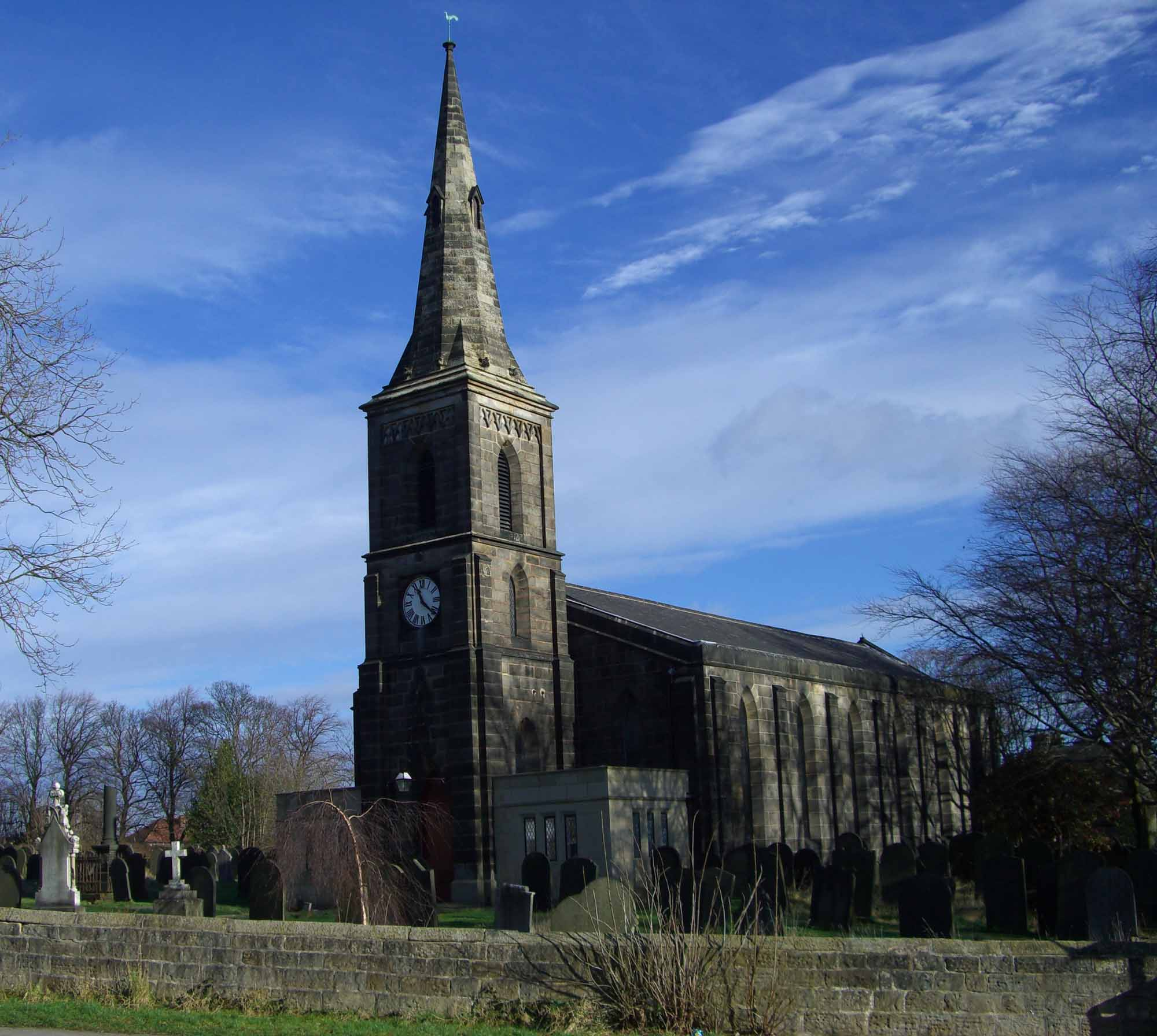 Wadsley Parish Church, Worrall Road, Sheffield, South Yorkshire, seen from the southwest